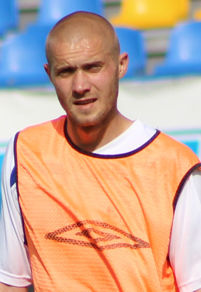 Vasyl Chornopiskiy